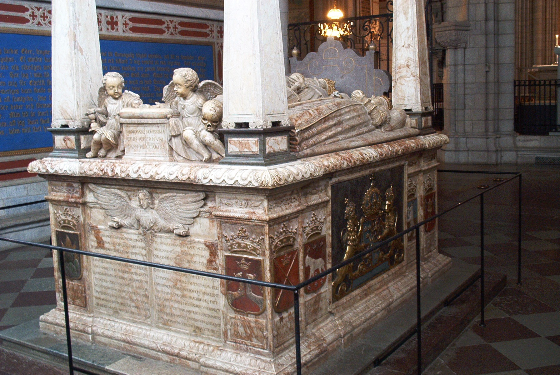 Grave of Gustavus Vasa, Uppsala Cathedral.